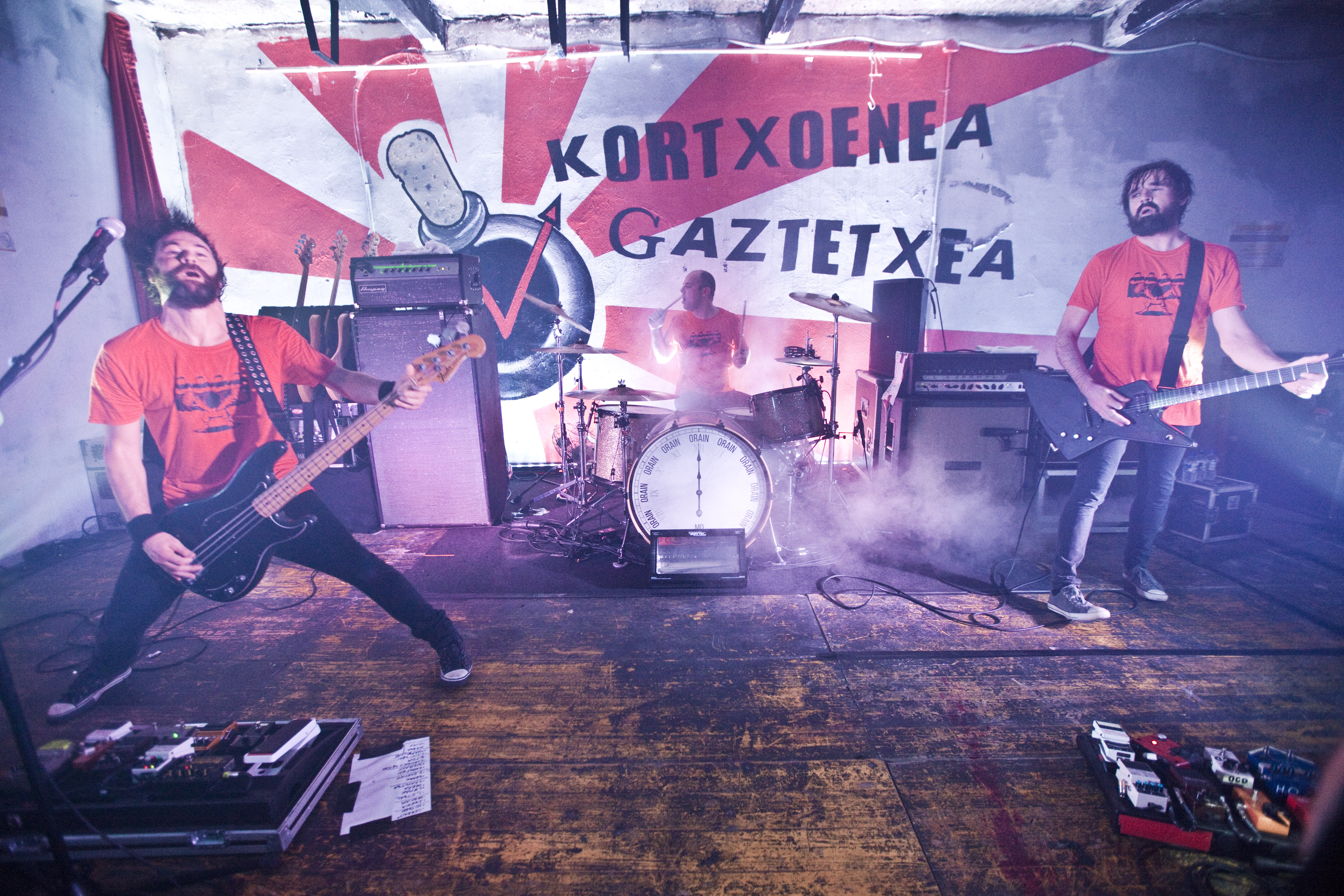 Kortxoenean